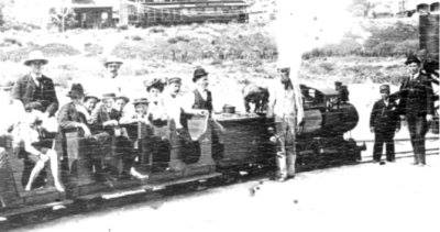 A locomotive designed by John J. Coit at the Seaside Park in Southern California. It is apparrently a "camelback" style locomotive. John Coit and his good friend and conductor is "Shorty" Chase are also in the picture just forward of the locomotive.